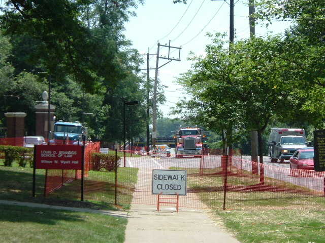 Reconstructing the Oval at 3rd Street